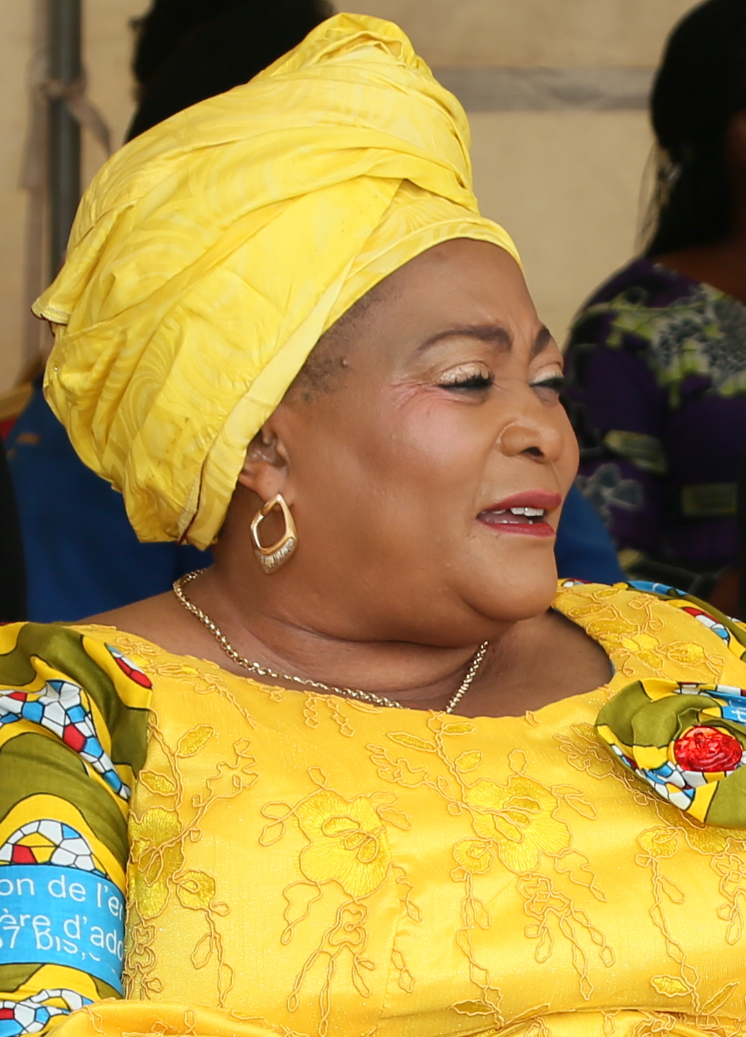 Kinshasa, DR Congo: The Minister of Gender, Child and Family, Mrs. Marie- Louise Mwange, during the celebration of International Women's Day at the Shark Club in Kinshasa.